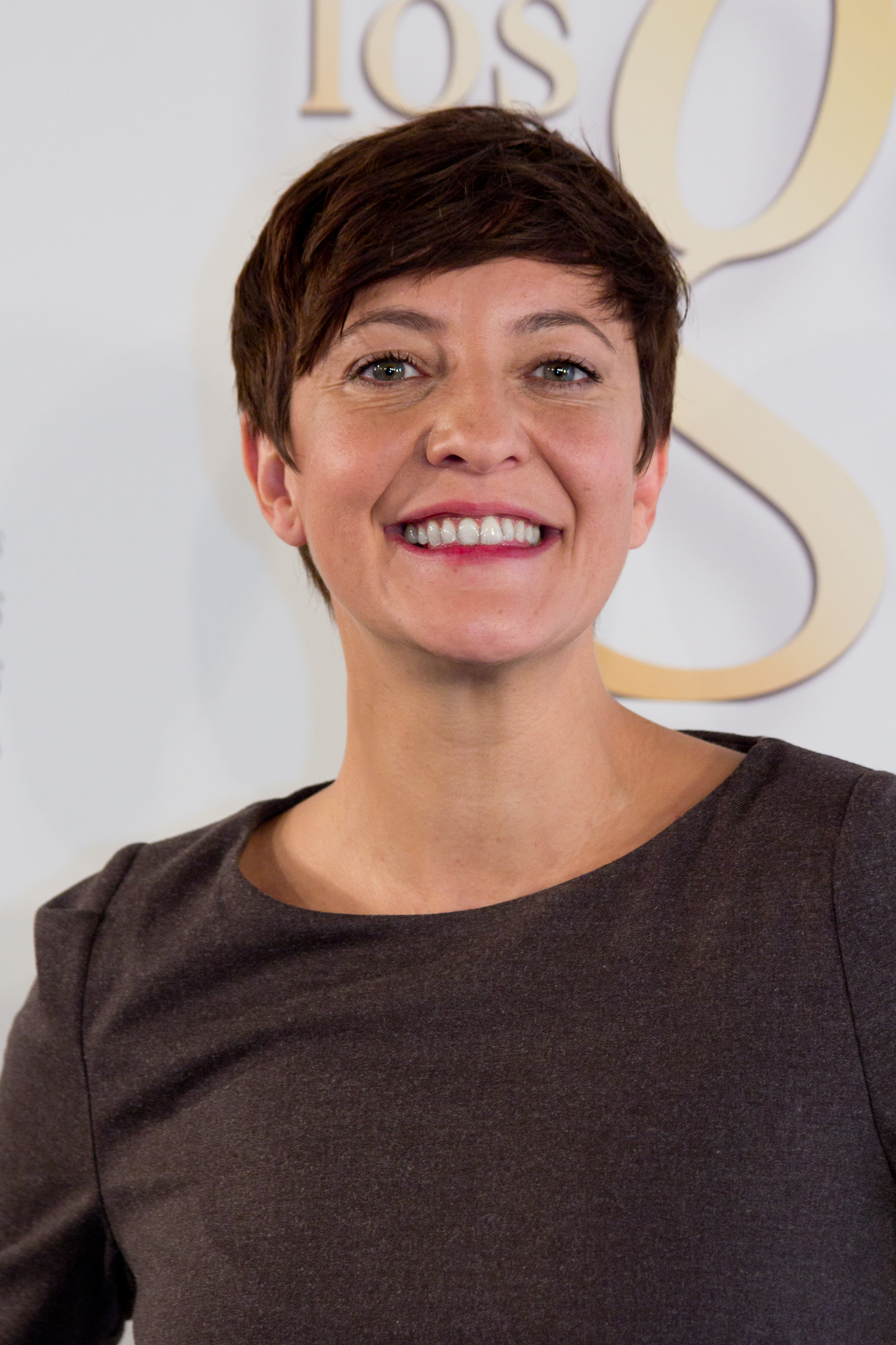 Eva Hache, Spanish comedy actress and television show hostess, during the introduction press conference to the 27th Goya Awards of which she was hostess.